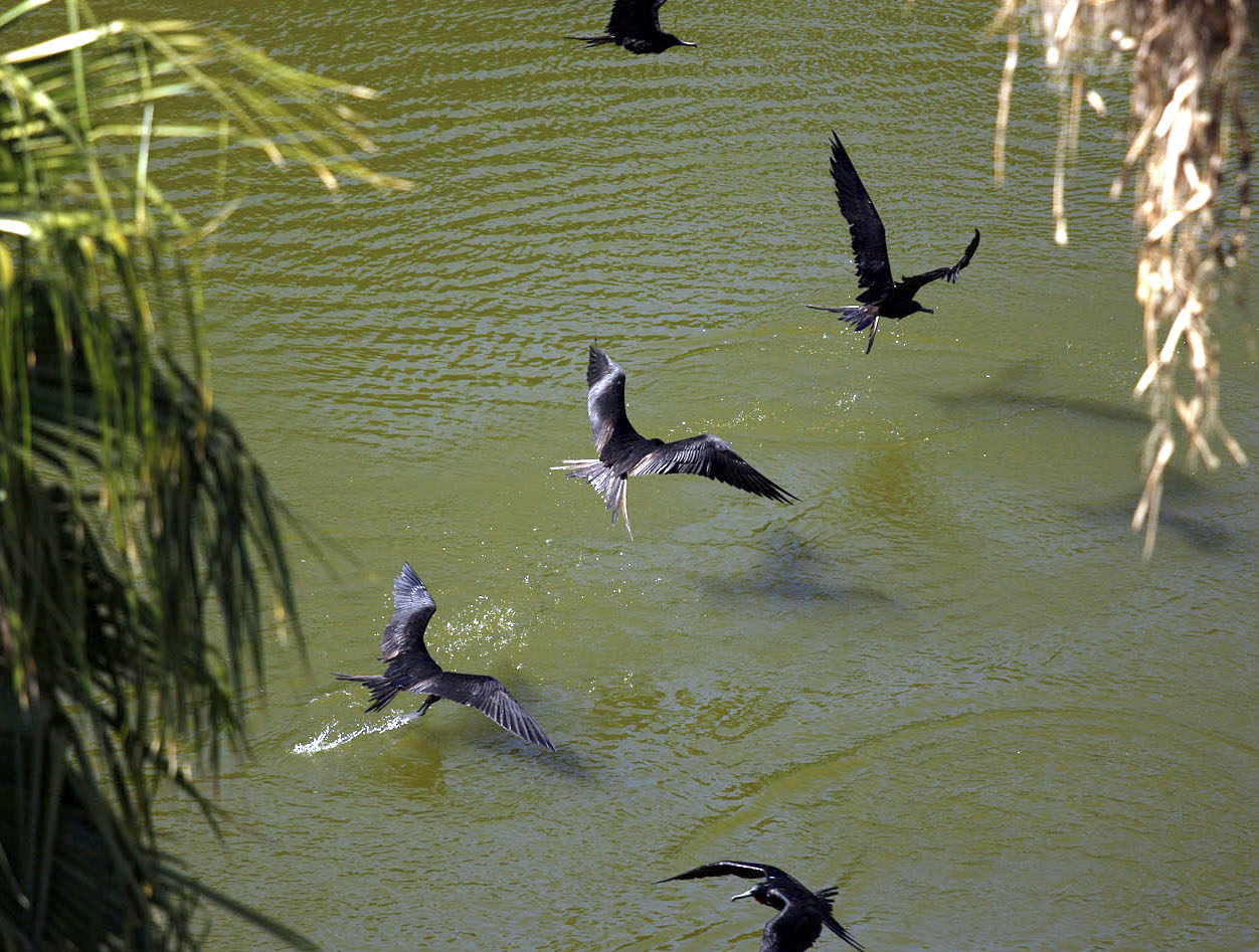 Fregata magnificens — Magnificent Frigatebird. In the oasis of Mulegé, Baja California Sur state, México.